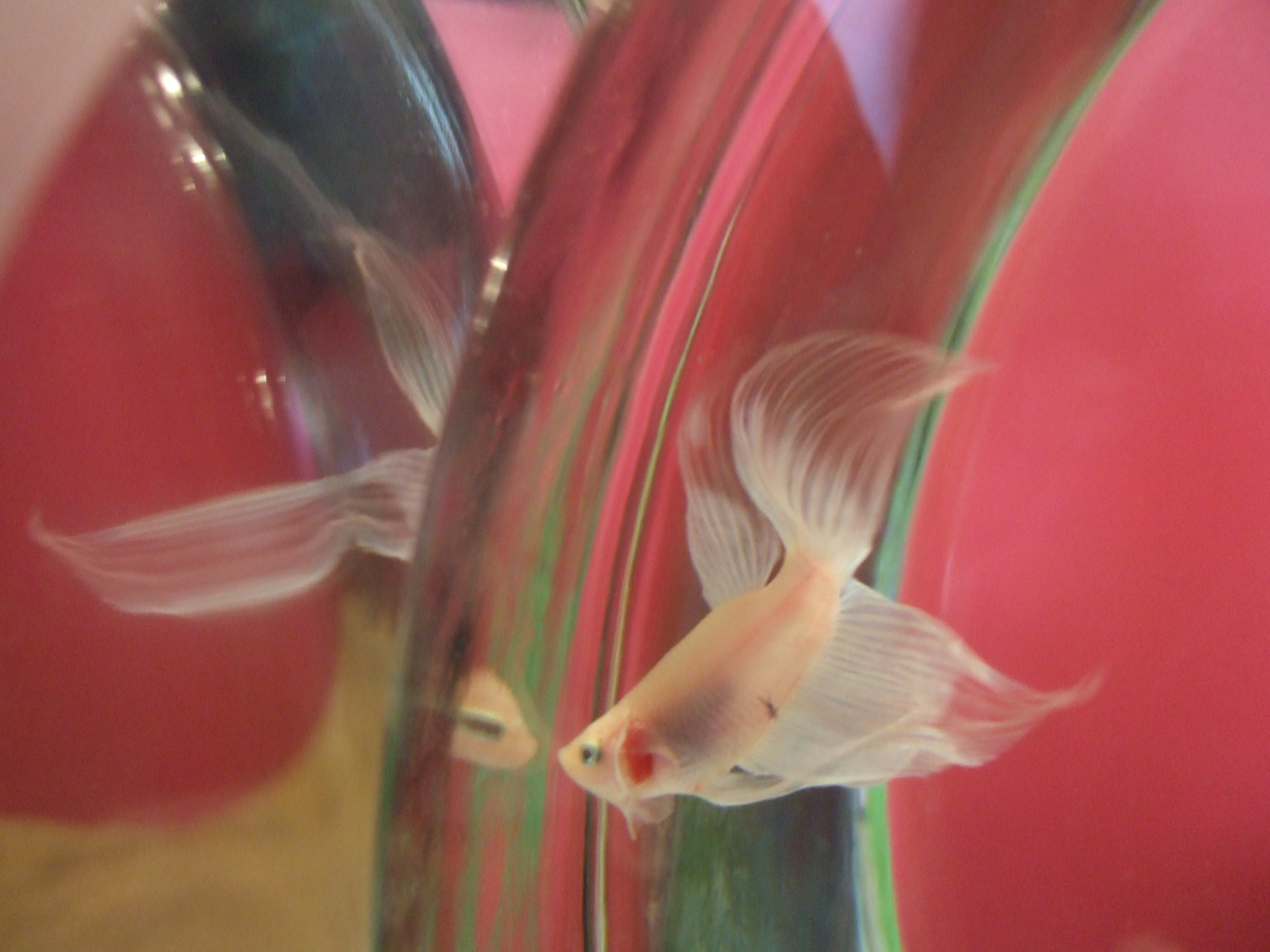 A male Siamese Fighting Fish flaring at his reflection in a mirror. To replace the image in the Siamese Fighting Fish article. I held the mirror off to the left to have him flare at it and put a sunlight lamp over him to take the picture. He is in a classic drum-style fish bowl.